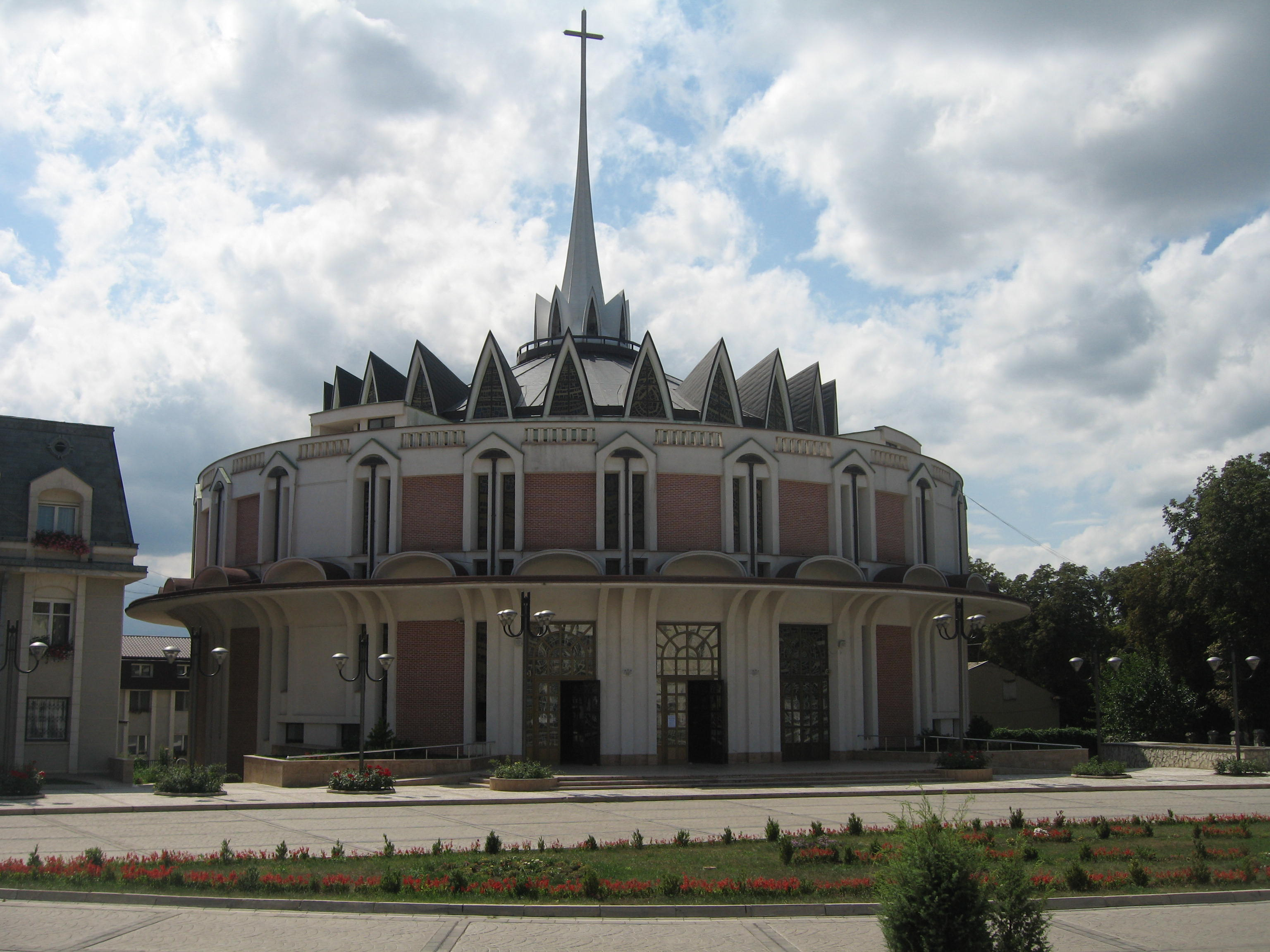 Catedrala Sfânta Maria Regină din Iaşi